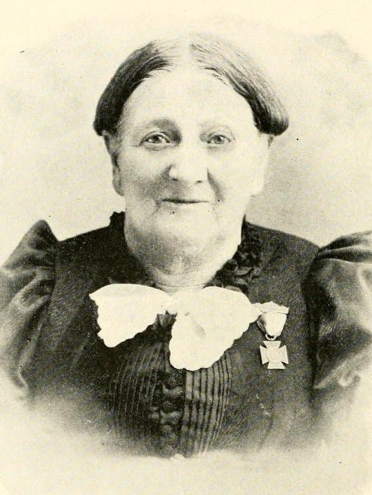 An older white woman, hair parted center and dressed back, wearing a black dress, a white lace bow, and a medal.